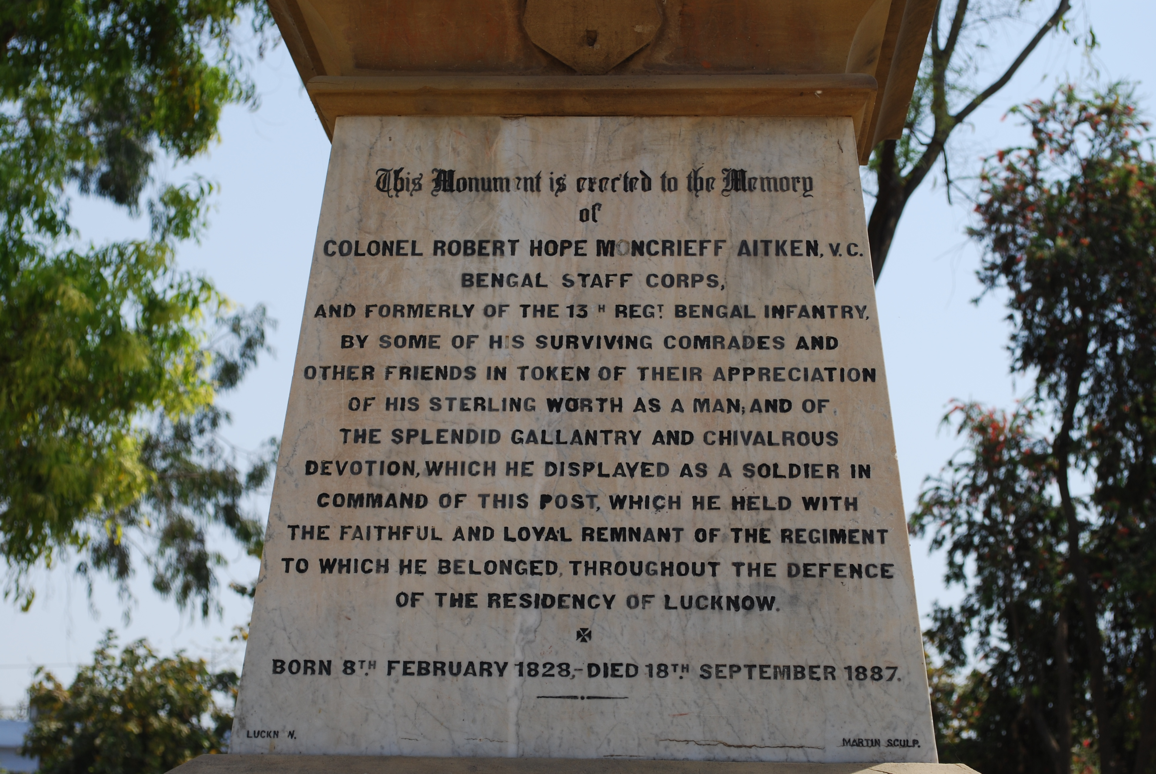 "This monument is erected to the memory of Colonel Robert Hope Moncrieff Aitken VC Bengal Staff Corps and formerly of the 13th Regt Bengal Infantry, by some of his surviving comrades and other friends in token of their appreciation of his sterling worth as a man, and of the splendid gallantry and chivalrous devotion which he displayed as a soldier in command of this post, which he held with the faithful and loyal remnant of the Regiment to which he belonged throughout the defence of the Residency of Lucknow. Born 8th February 1828- died 18th September 1887"